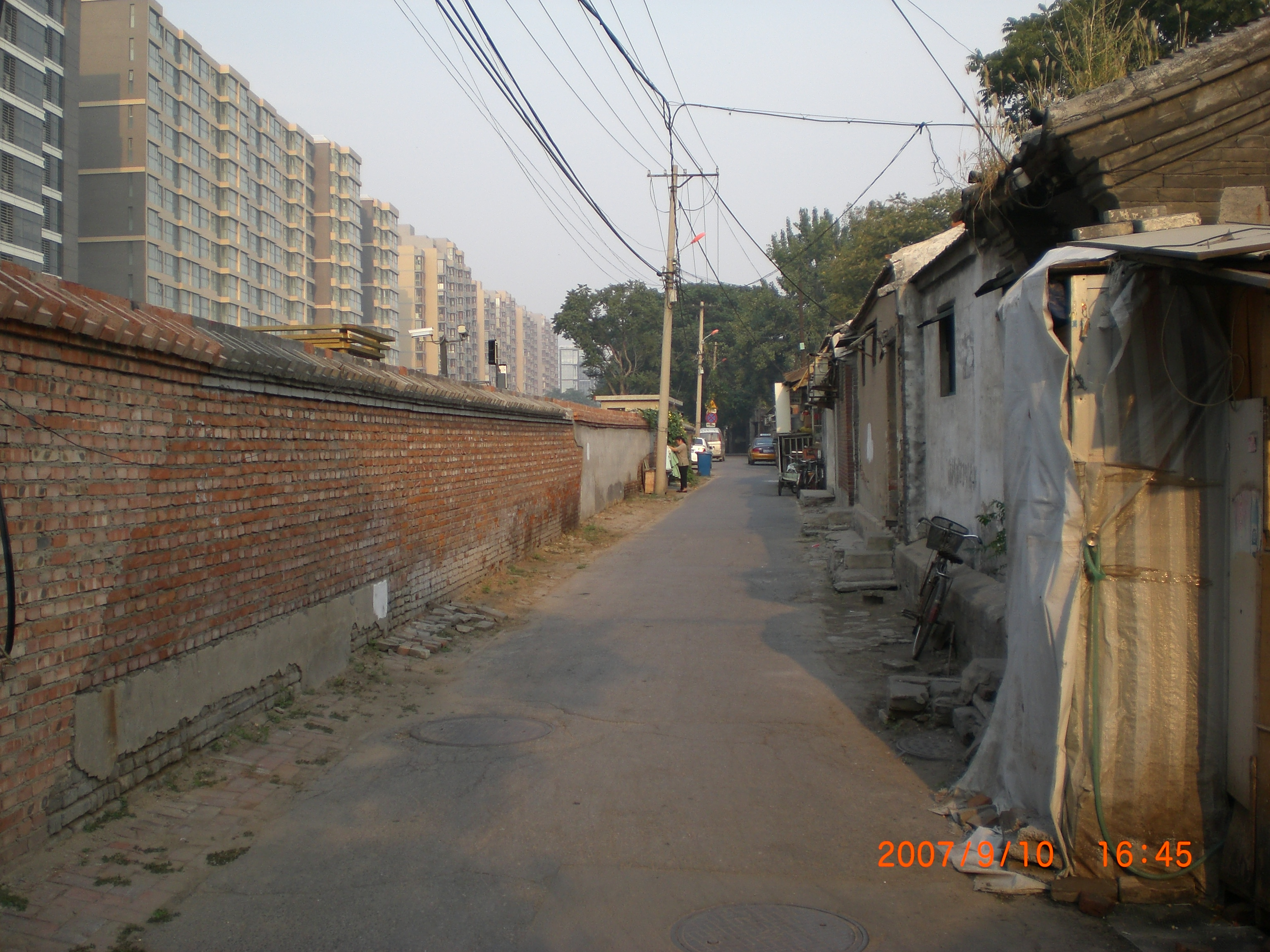 Old and new houses